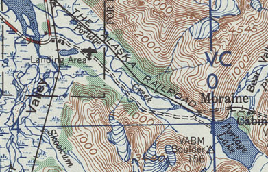 A 1955 USGS map of an unimproved, dry weather dirt road, which developed into the Portage Glacier Highway.